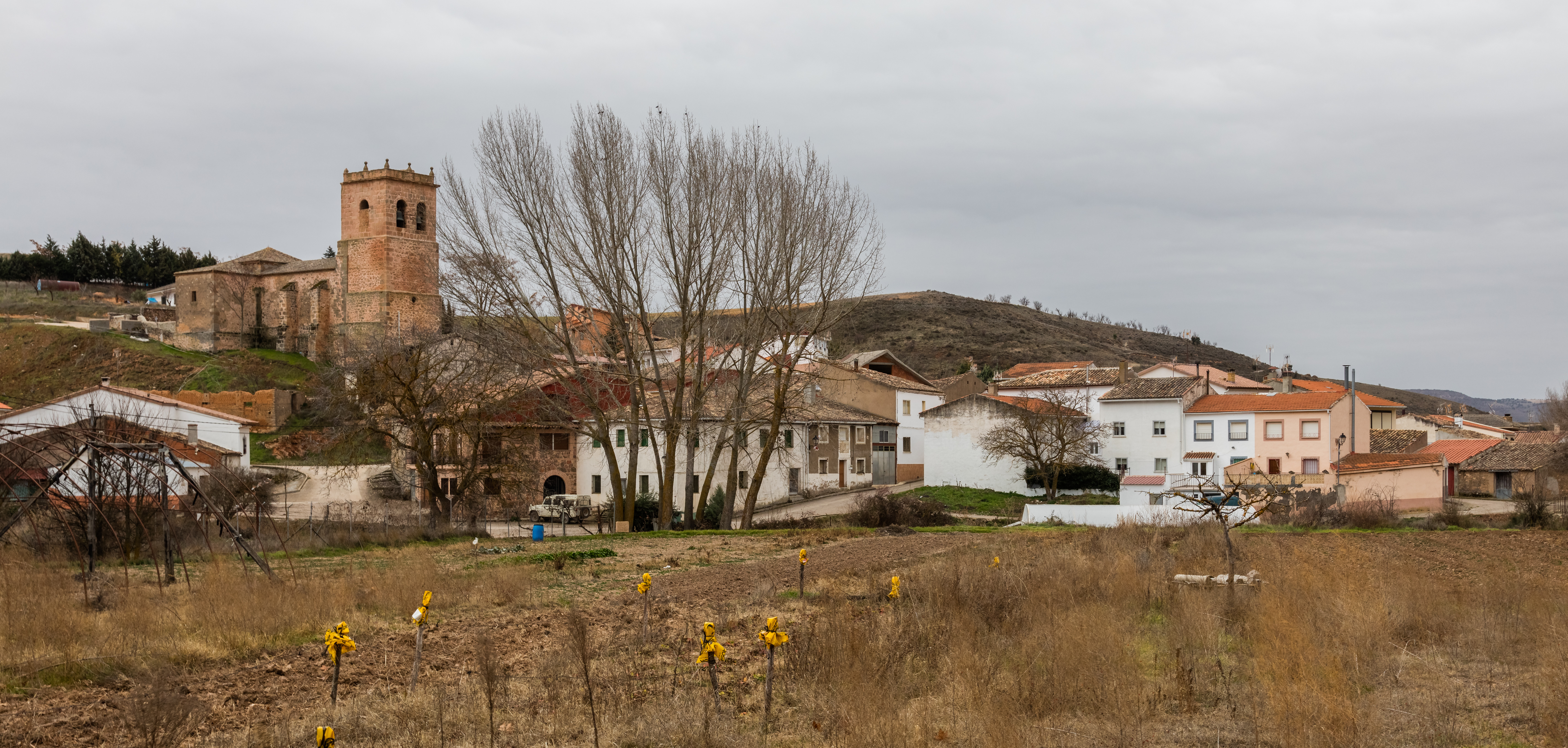 Jirueque, Guadalajara, Spain